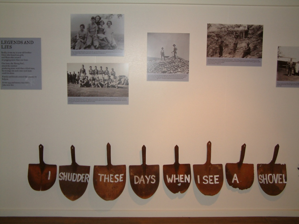 From 'Freedom, Fortitude and Flies' a social history exhibition in Tennant Creek